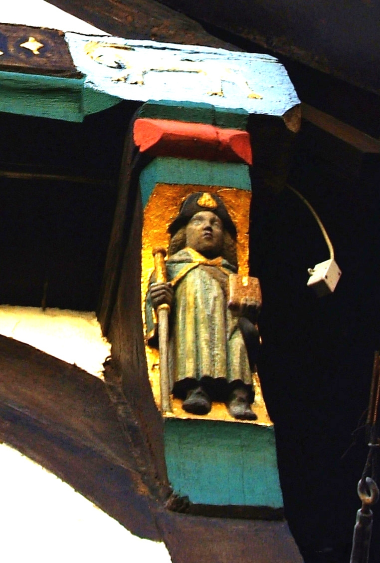 Saint James pilgrim on the Remensnider framework house in Herford, District of Herford, North Rhine-Westphalia, Germany. The signs on the St. James pilgrims, the walking pole,the book and the shell are easy to see. In the middleages Herford was an important meeting point for St. James pilgrims on their way to Santiago de Compostela in Spain.